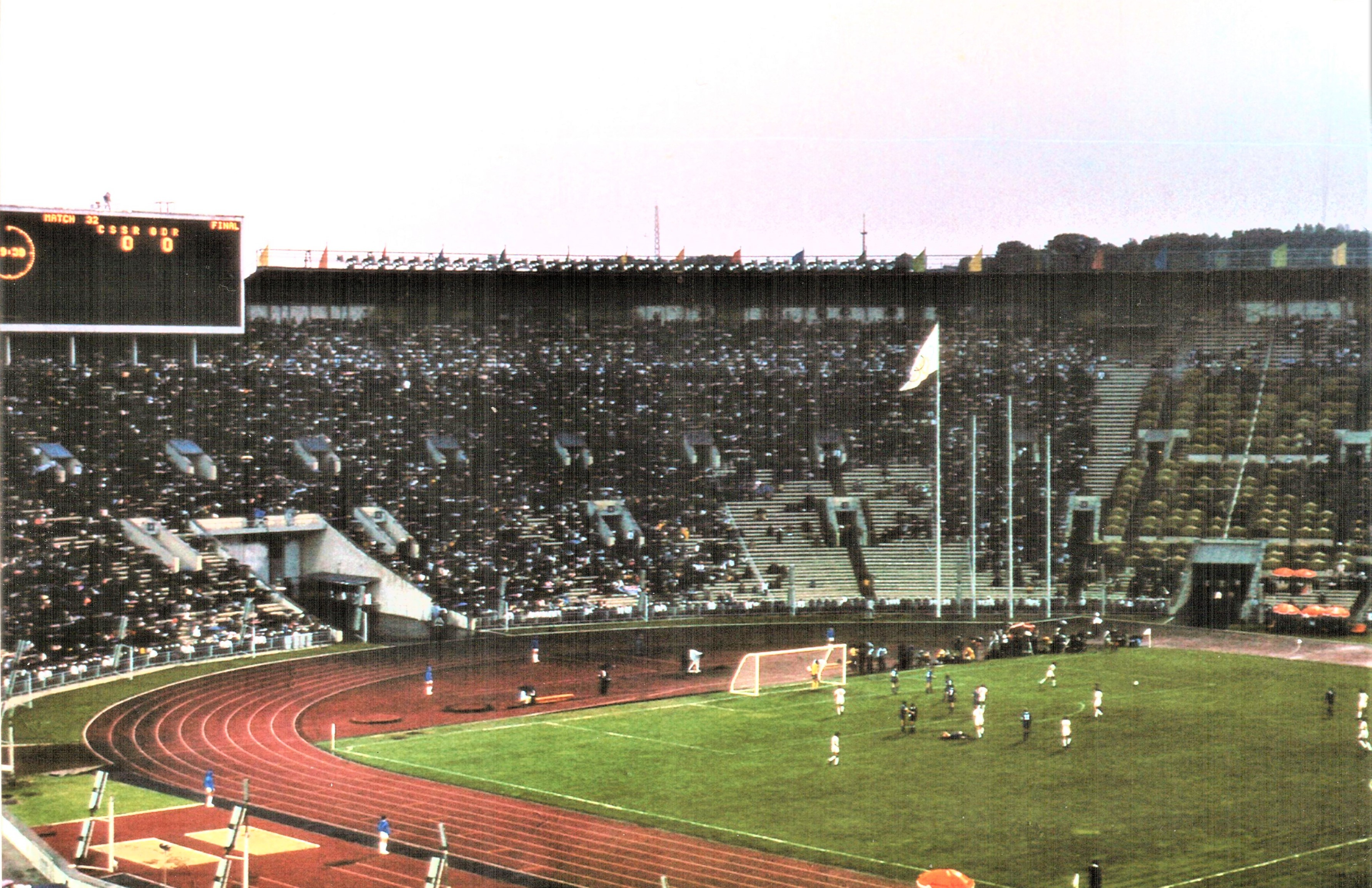 Moscow Olympic Games, 1980. Live in Moscow, in the Summer, 1980. I travelled with a Hungarian group of fans, from Budapest, Hungary. Published under Creative Commons in the Metapolisz DVD line.